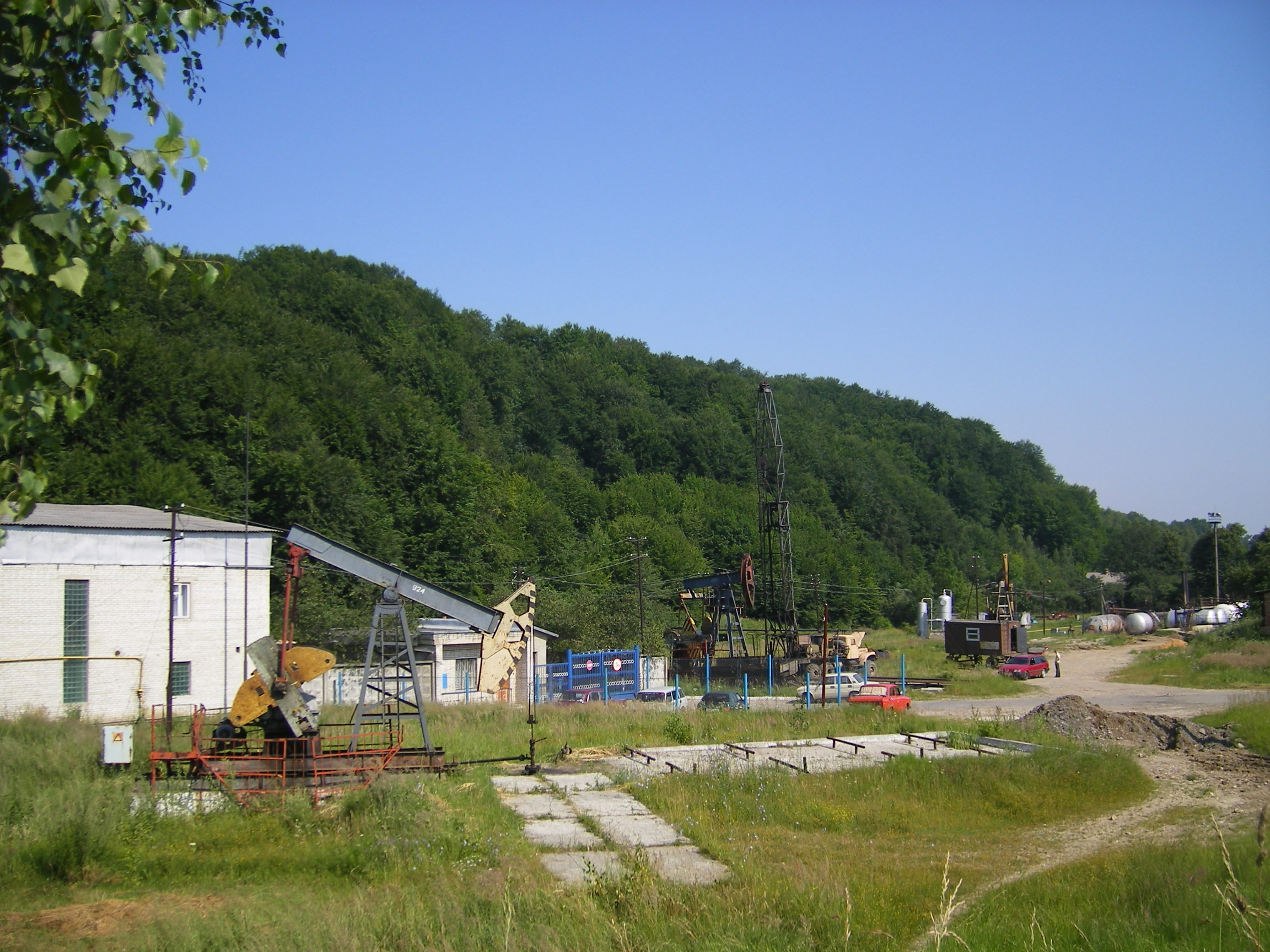 Boryslav, Oil production